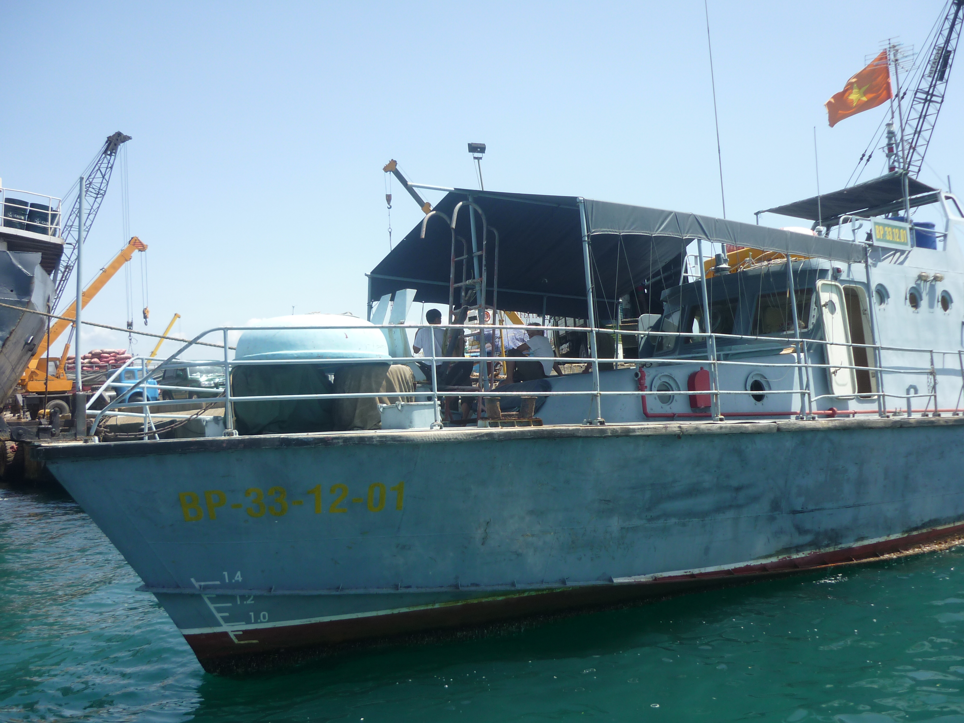 Patrol Boat of PAVN, Vietnam 2009